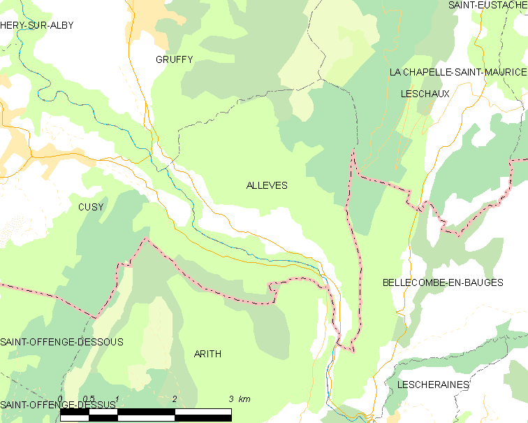 Map of French municipality Allèves